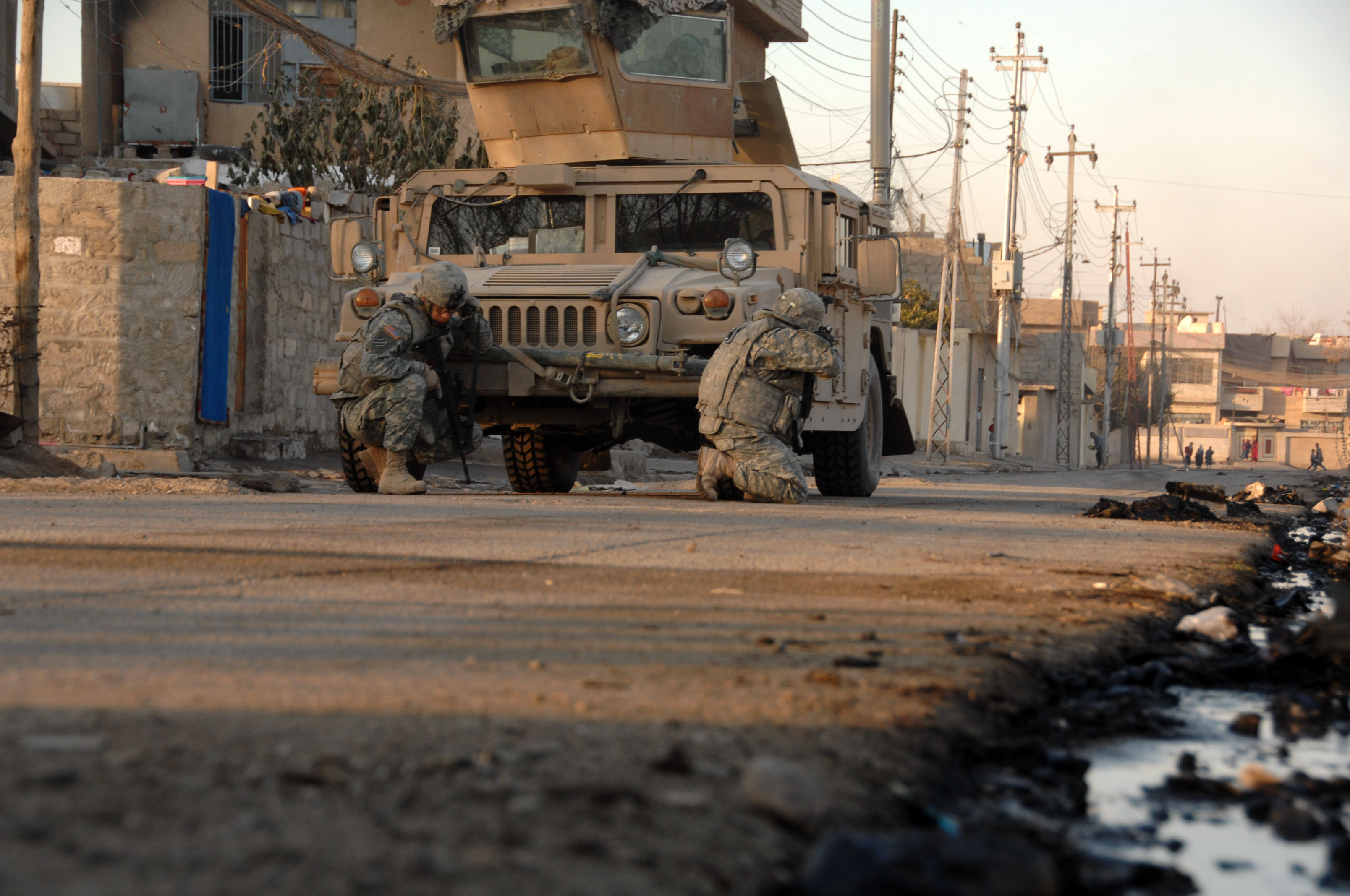 U.S. Army Soldiers attached to Heavy Company, 3rd Squadron, 3rd Armored Cavalry Regiment take cover behind their vehicle after hearing small arms fire in the distance in Mosul, Iraq, Jan. 17, 2008. (U.S. Army photo by Spc. Kieran Cuddihy) (